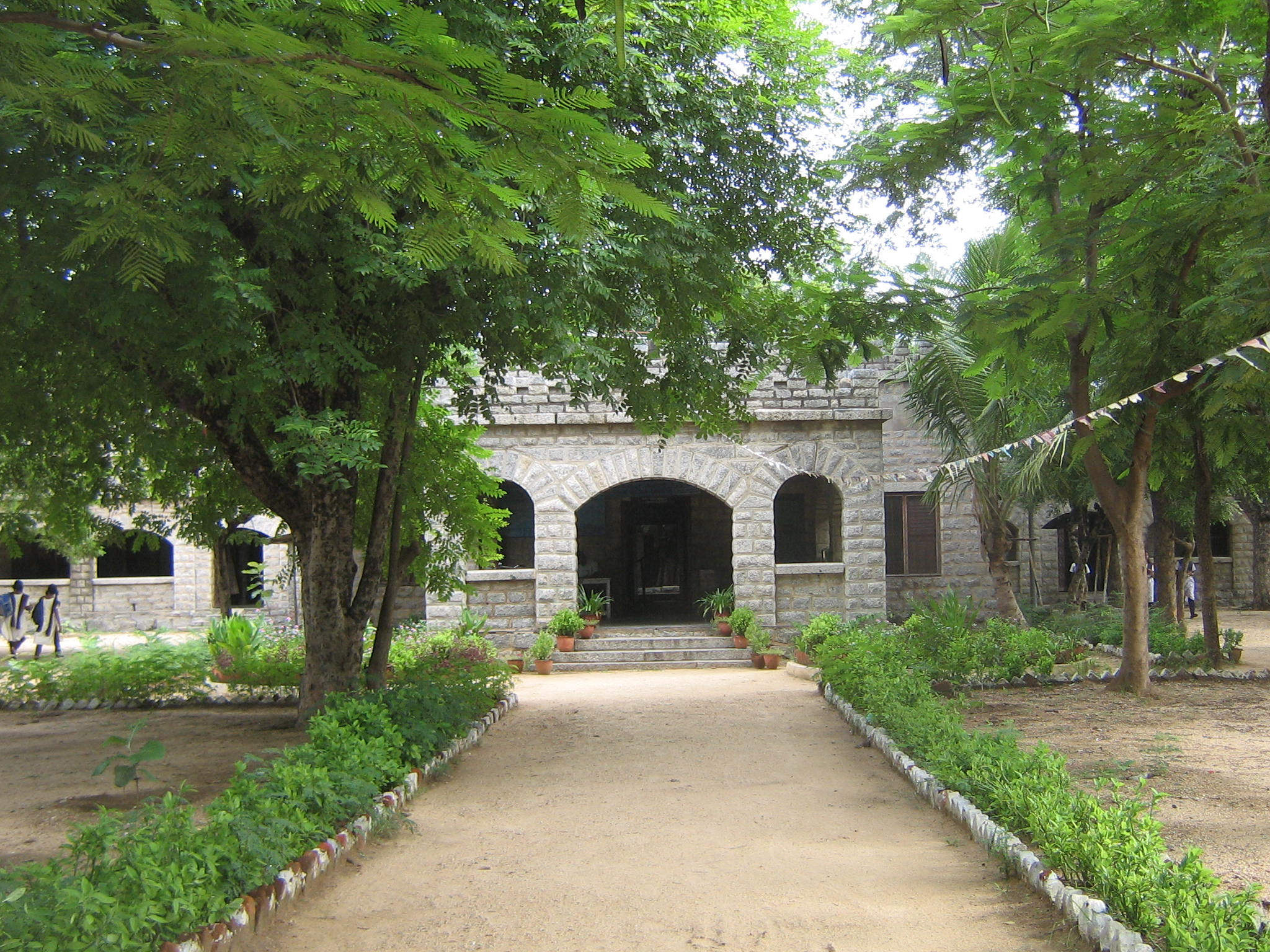 Goodlet Higher Secondary School Front View குட்லெட் மேனிலைப் பள்ளி வளாகம்